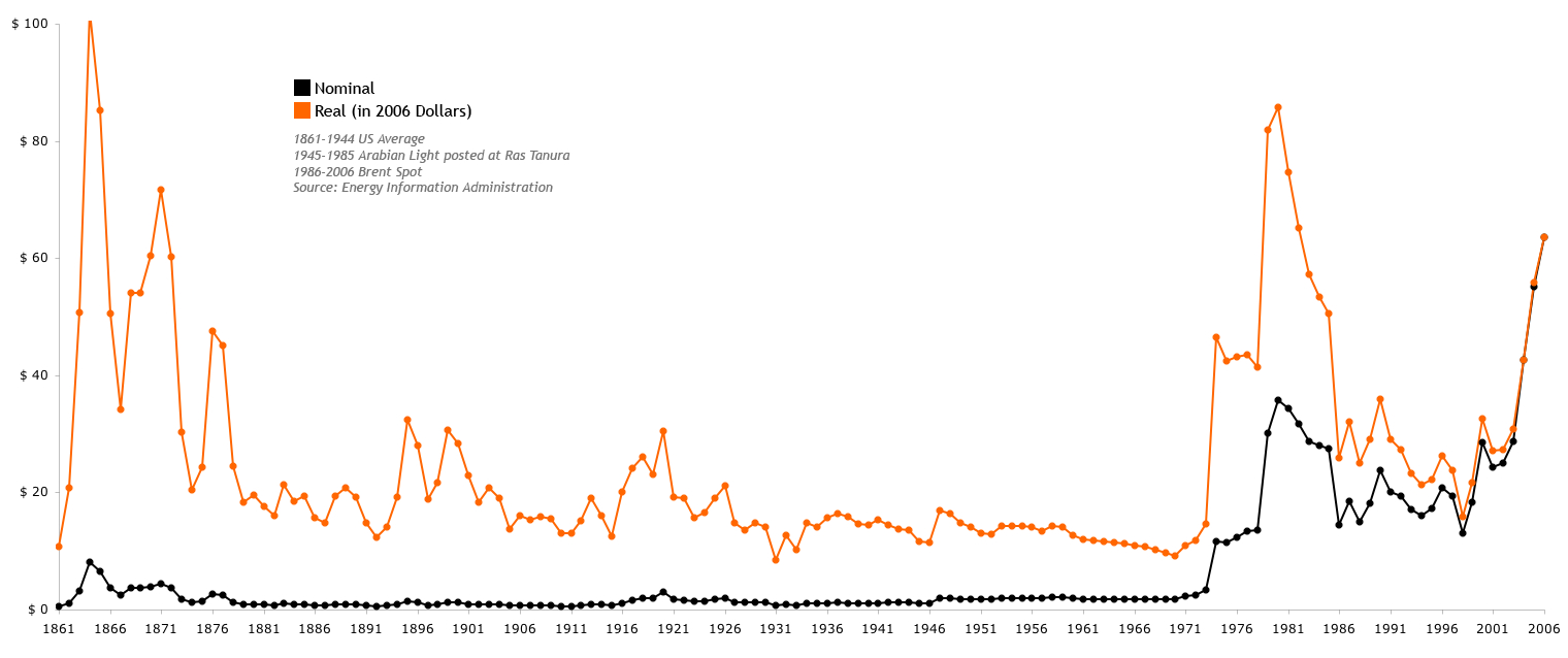 Crude oil price history from 1861-2006, dollars per barrel. Licensing Created by Michael Ströck, 2006. Released under the GFDL.